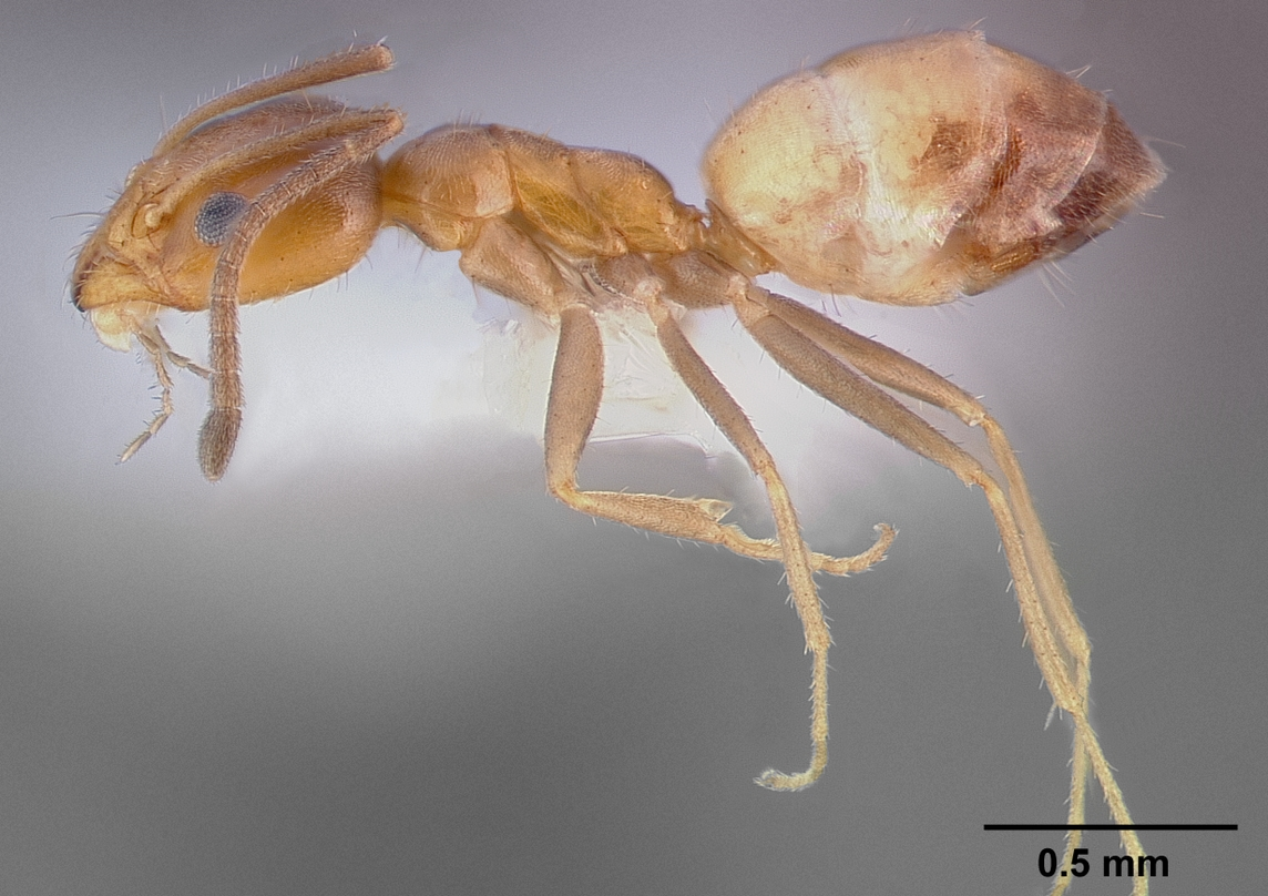 Profile view of ant Forelius mccooki specimen casent0005322.